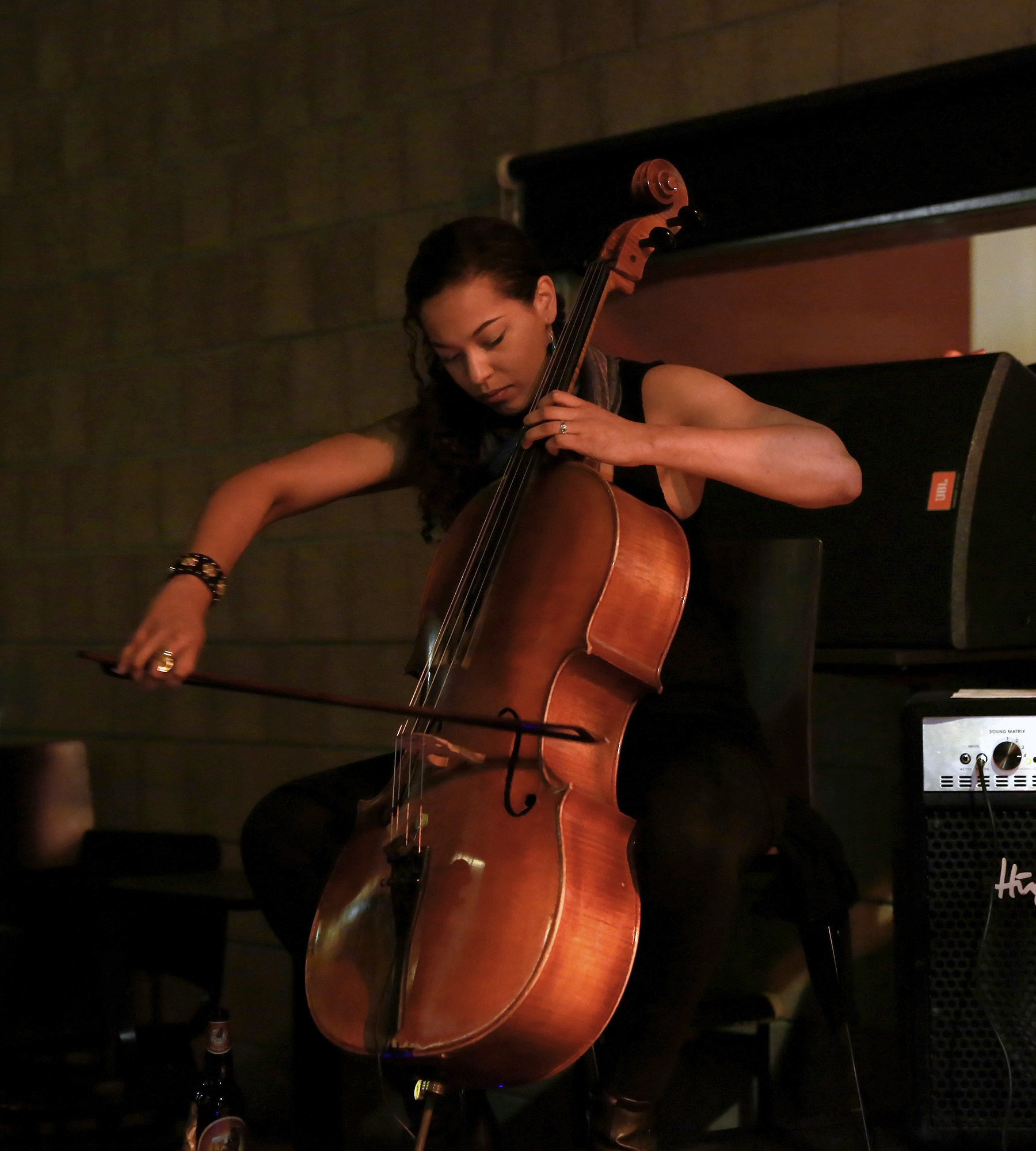 Salomon's Wrong Choice (Christoph Rossmanith: voc, git, Jörg Falinski: dr, Florian Kröppel : b, Anna Starzinger: cello) live at Café 7*stern in Vienna, Austria.